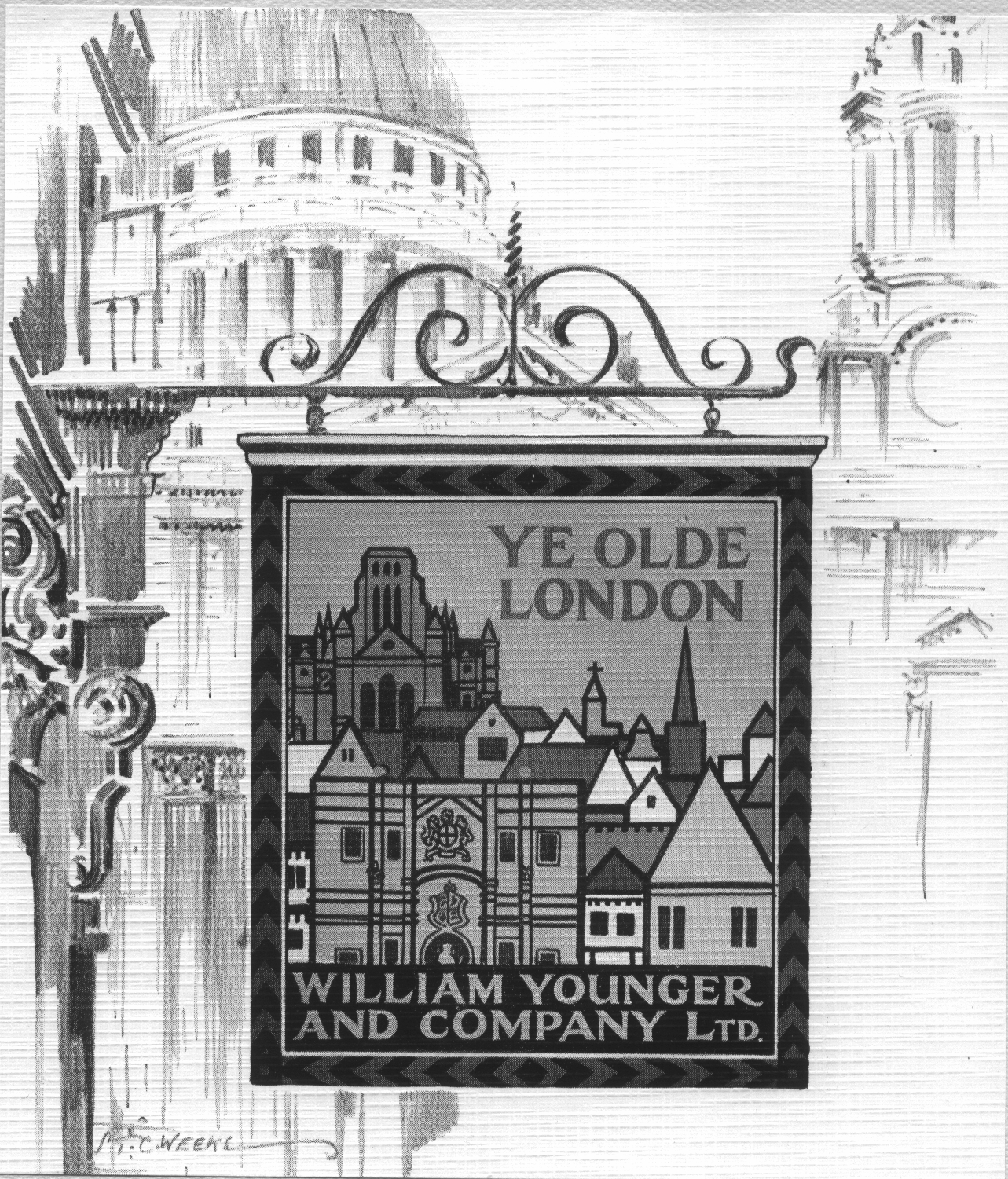 Younger's 'Ye Olde London' tavern sign